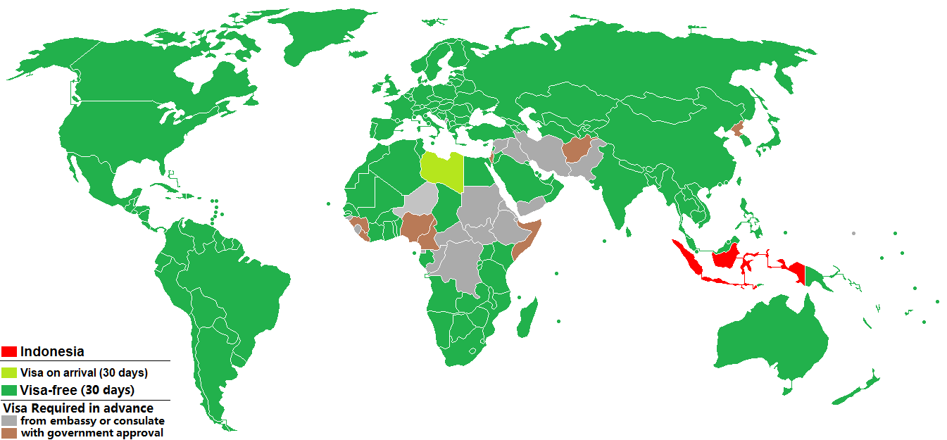 Visa policy of Indonesia Indonesia Visa-free (30 days) Visa on arrival (30 days) Visa required in advance Visas issued only with government approval